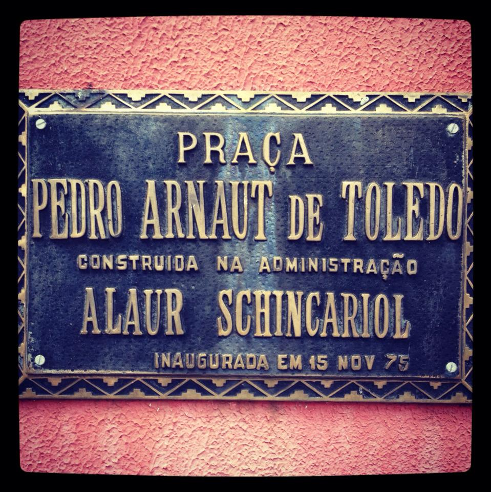 Placa de inauguração da Praça Pedro Arnault de Toledo